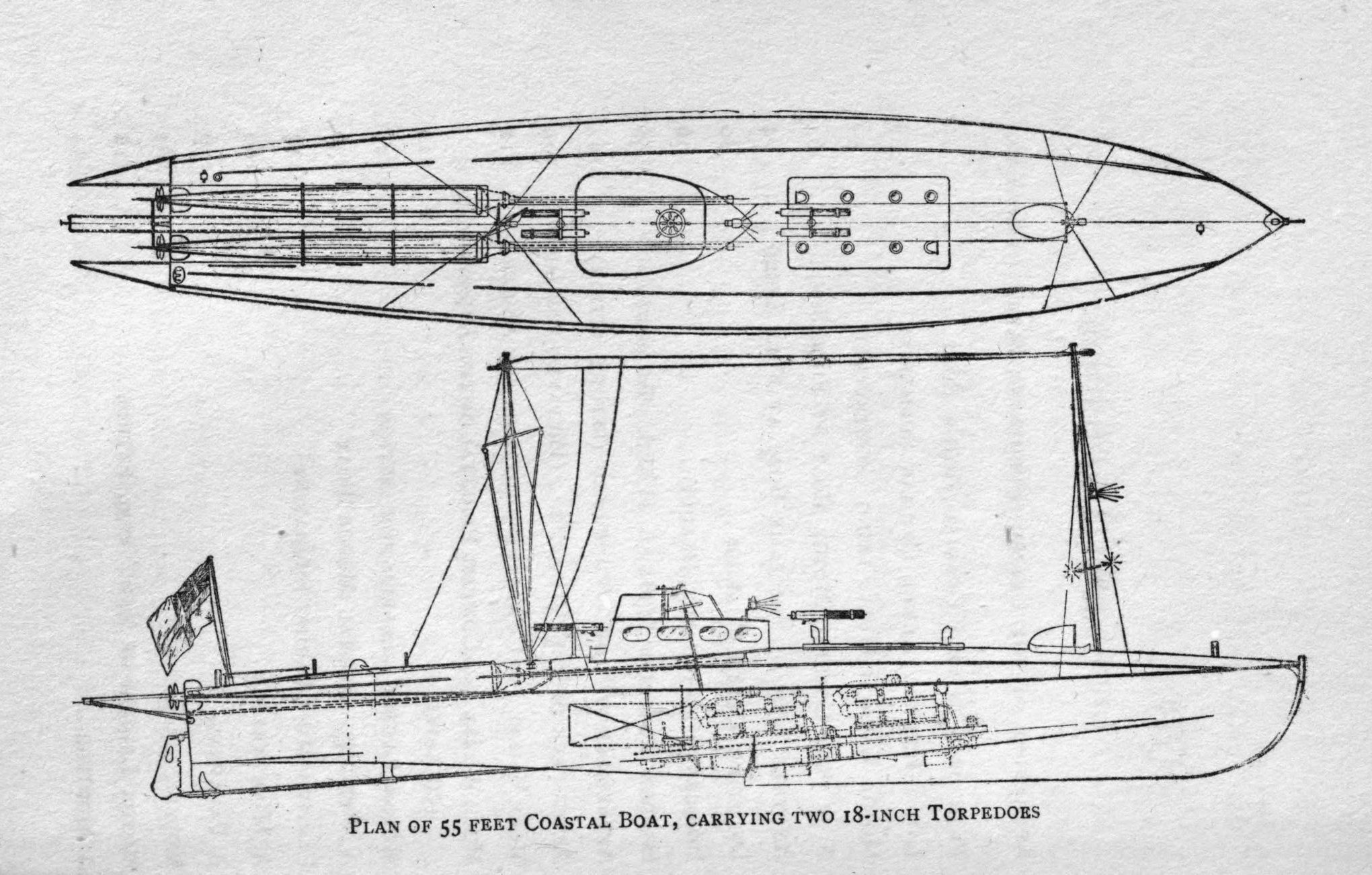 cutout view of 55 type CMB